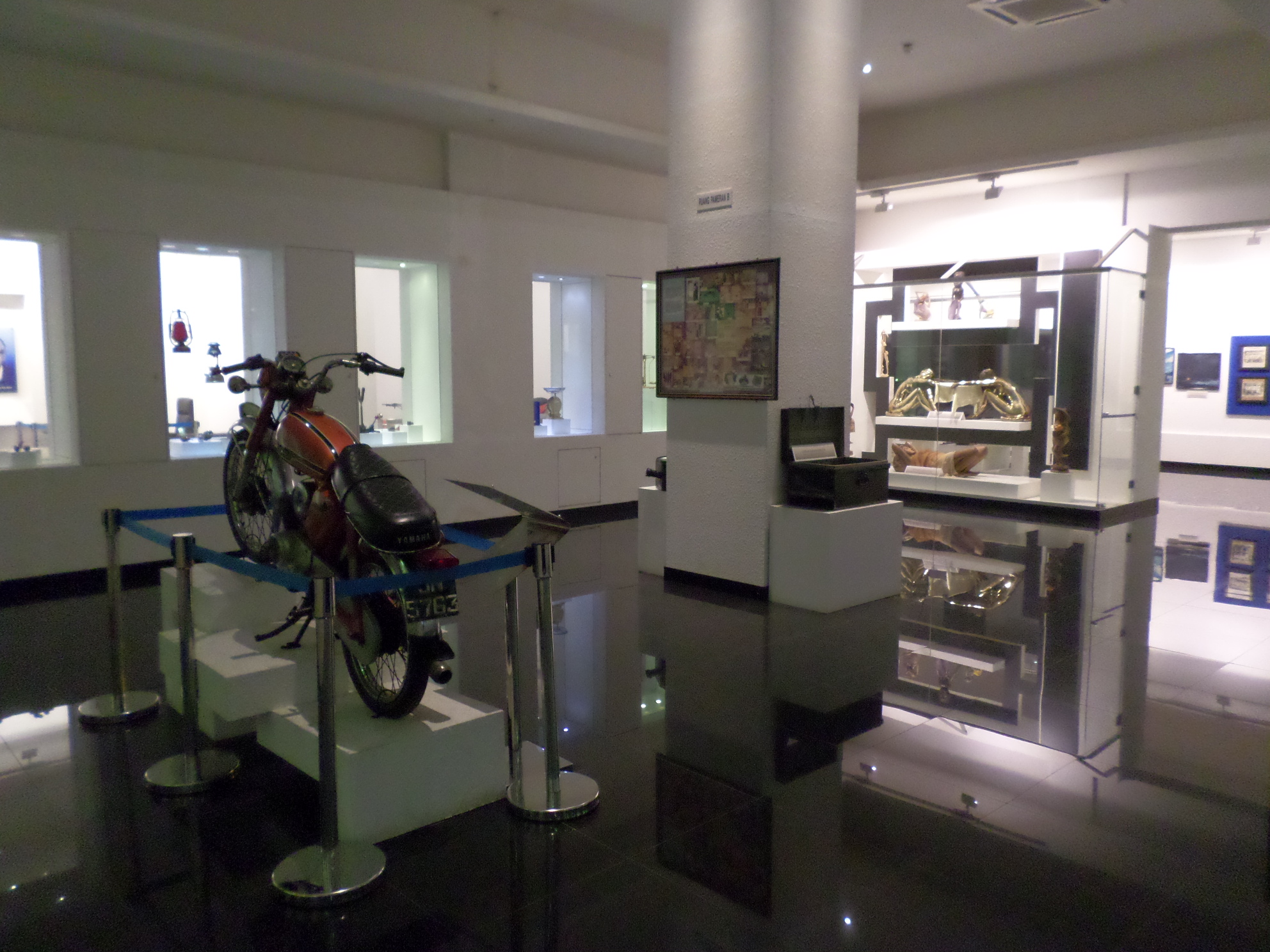 Royal Malaysian Customs Department Museum, Malacca, MalaysiaBahasa Melayu: Muzium Jabatan Kastam Diraja Malaysia, Melaka, Malaysia